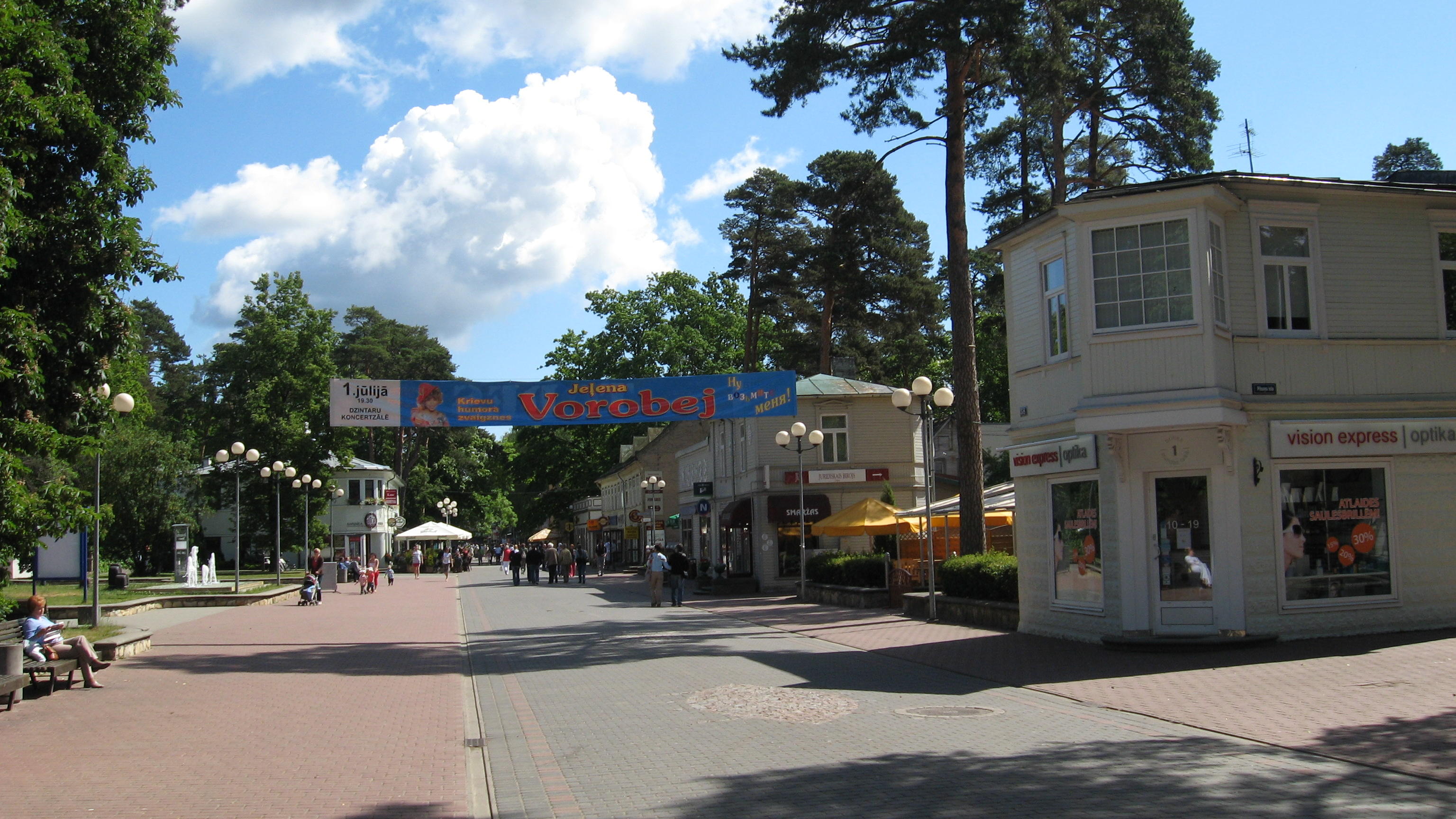 Pedestrian street in Jūrmala, Latvia.